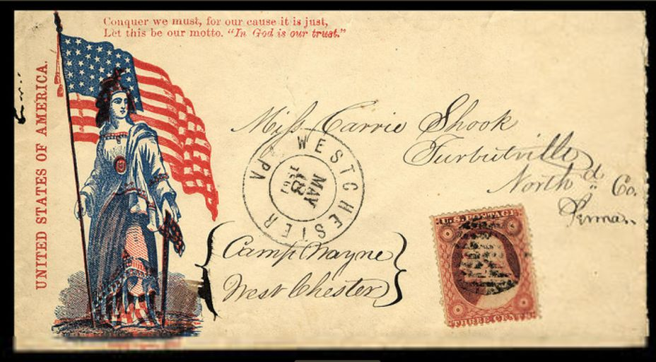 Union patriotic cover with allegory of standing liberty and flag with "In God is our trust" motto, used from West Chester, PA. Scott 26 cancelled with 7 bar circular grid, not tied to cover. May 18, 1861